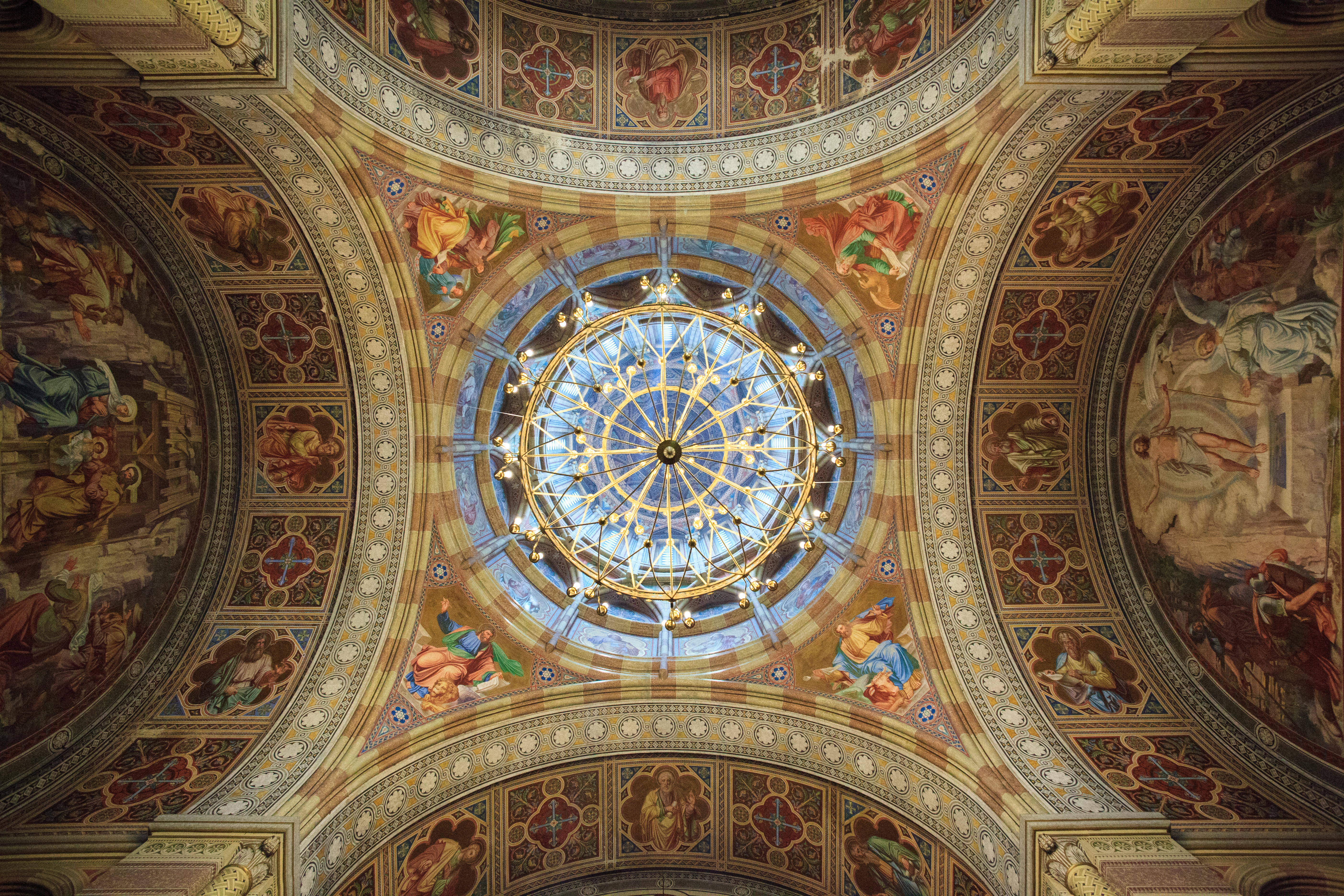 Three Saints Church (Chernivtsi). Ceiling paintings of the Seminar church (1870, painters: Yobst, Buchevsky, the monument of architecture of national significance №778/3). This is a part of the complex metropolitan residence of Bukovina and Dalmatia, which is listed in the UNESCO World Heritage List